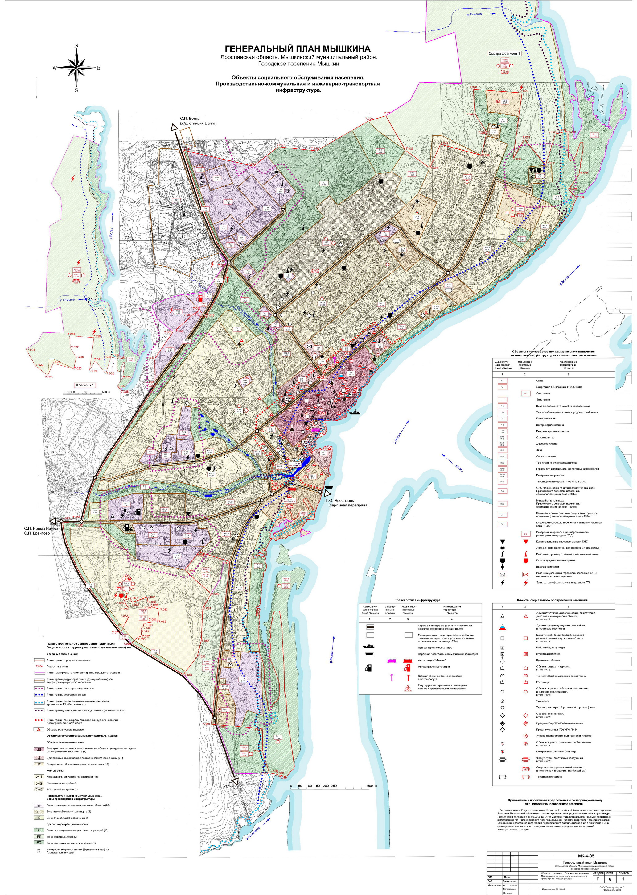 General plan of Myshkin 2008. Objects of social services. Industrial & municipal engineering and transport infrastructure.